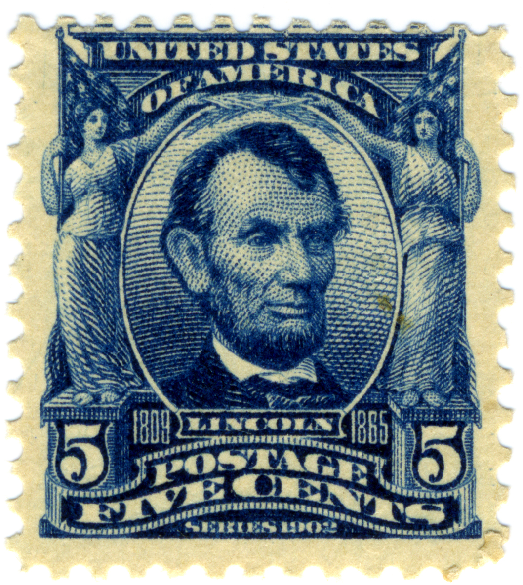 5-cent 1902-1903 series United States postage stamp, perforated (12) with double-line watermark, depicting Abraham Lincoln. Scott #304